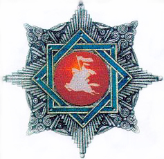 Order Manas III extent